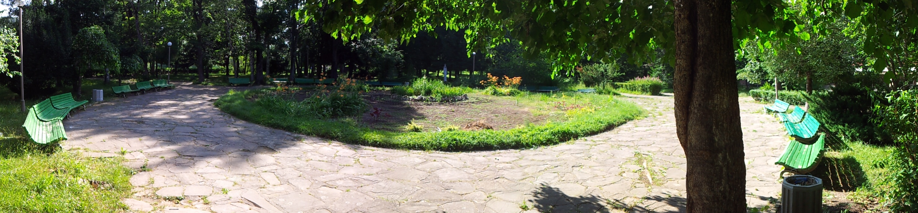 Park.